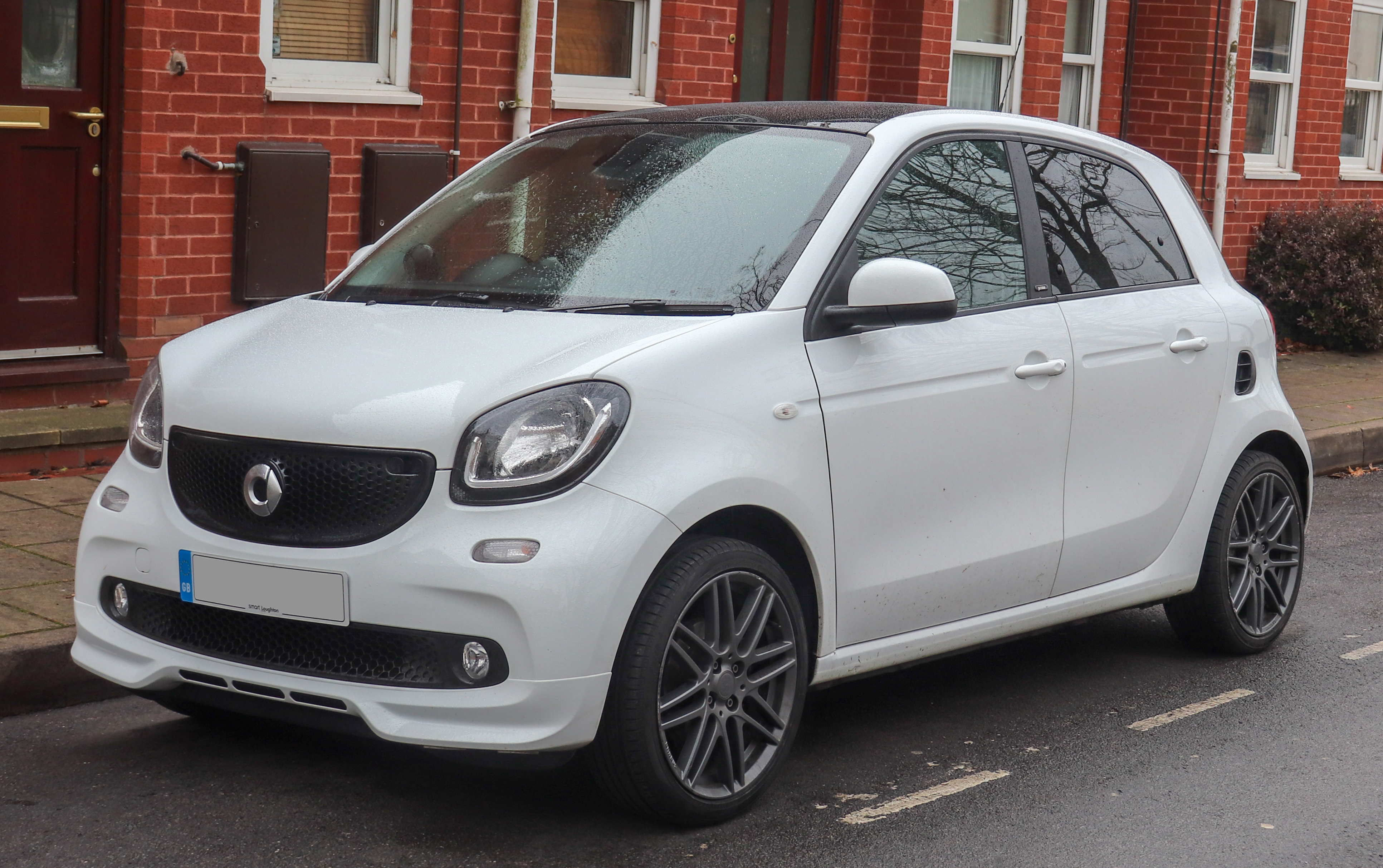 2018 Smart Forfour Brabus Sport Premium 900cc Front Taken in Leamington Spa